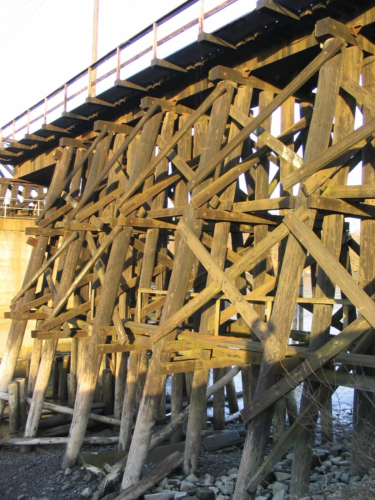 Wooden trestle bridge approach